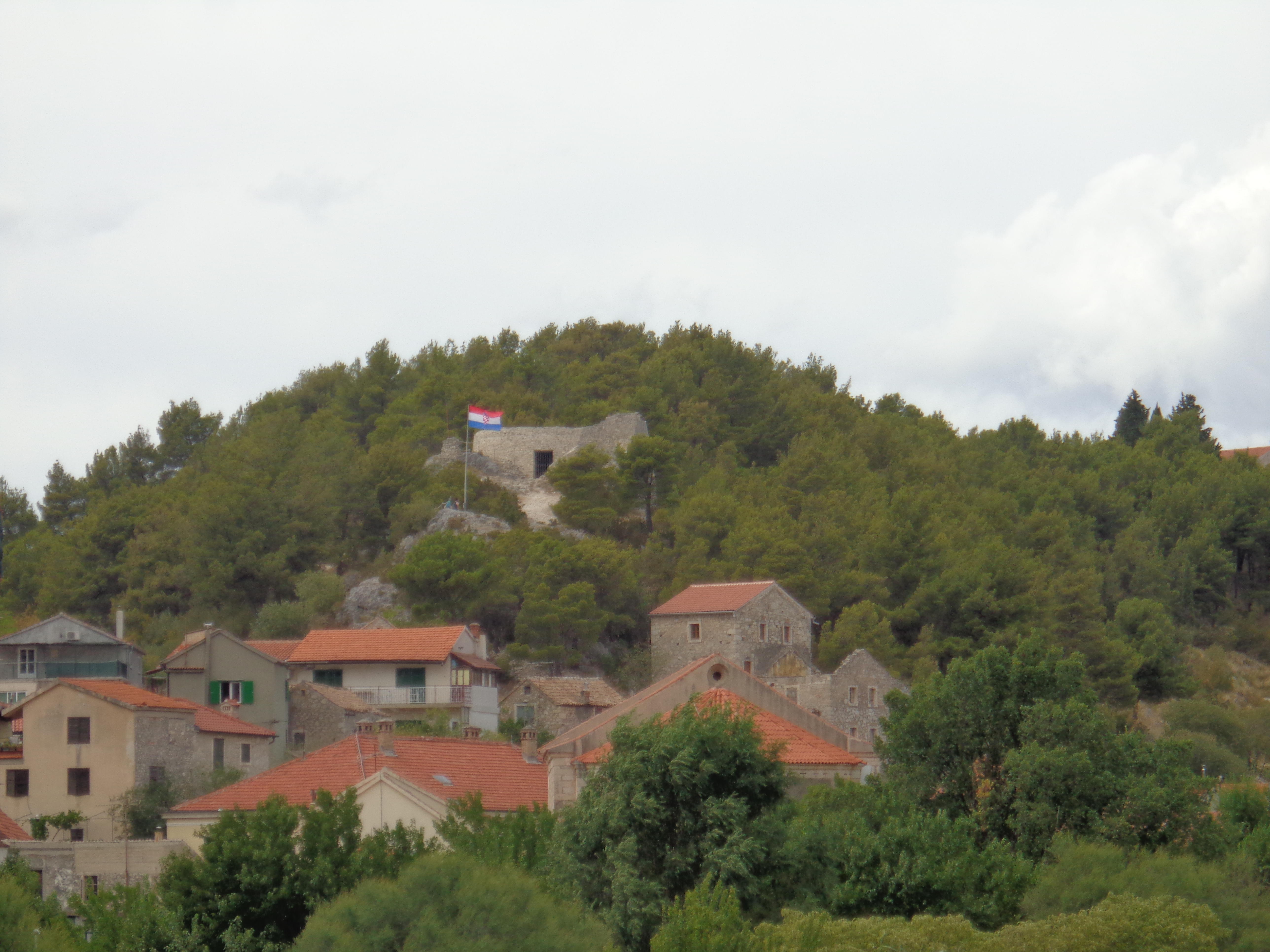 Turina Castle above the town of Skradin, Šibenik-Knin County, Croatia